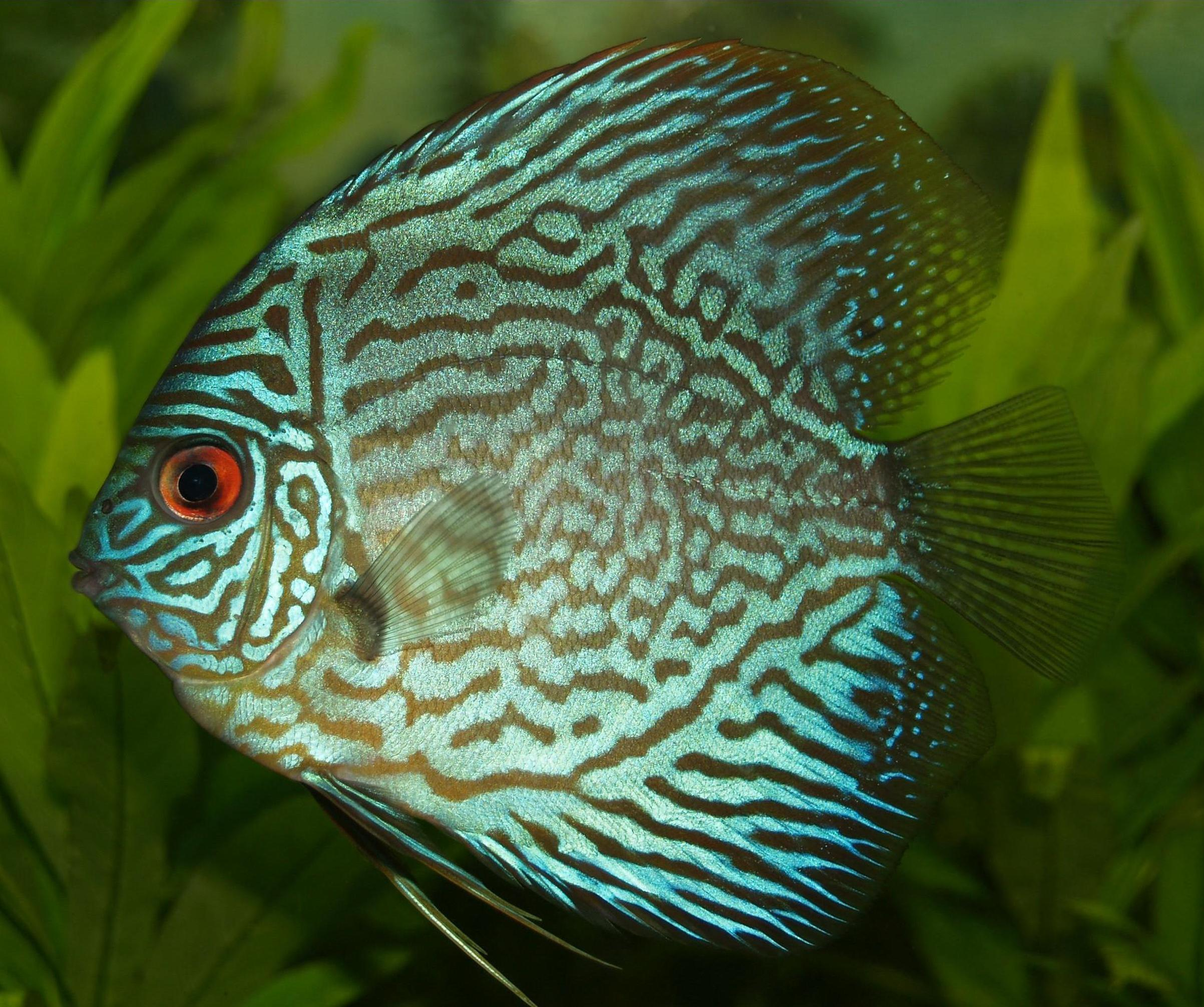 Symphysodon aequifasciata